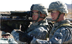 Team Chief SPC Patrick Edmondson (left) and Gunner SPC Sean Askey (right) participate in Stinger live fire over Forward Operating Base Seattle.